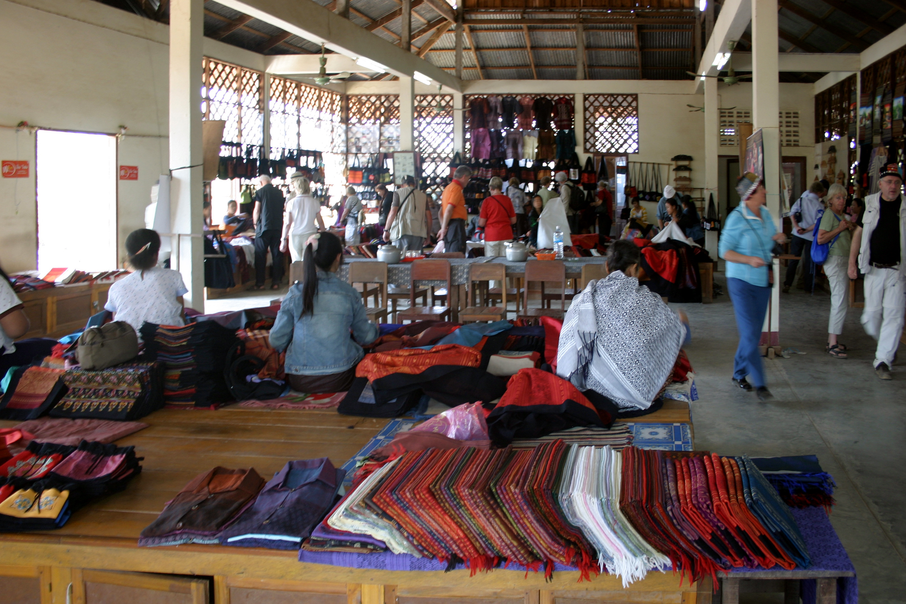 Weaving in Luang Prabang Province in Laos